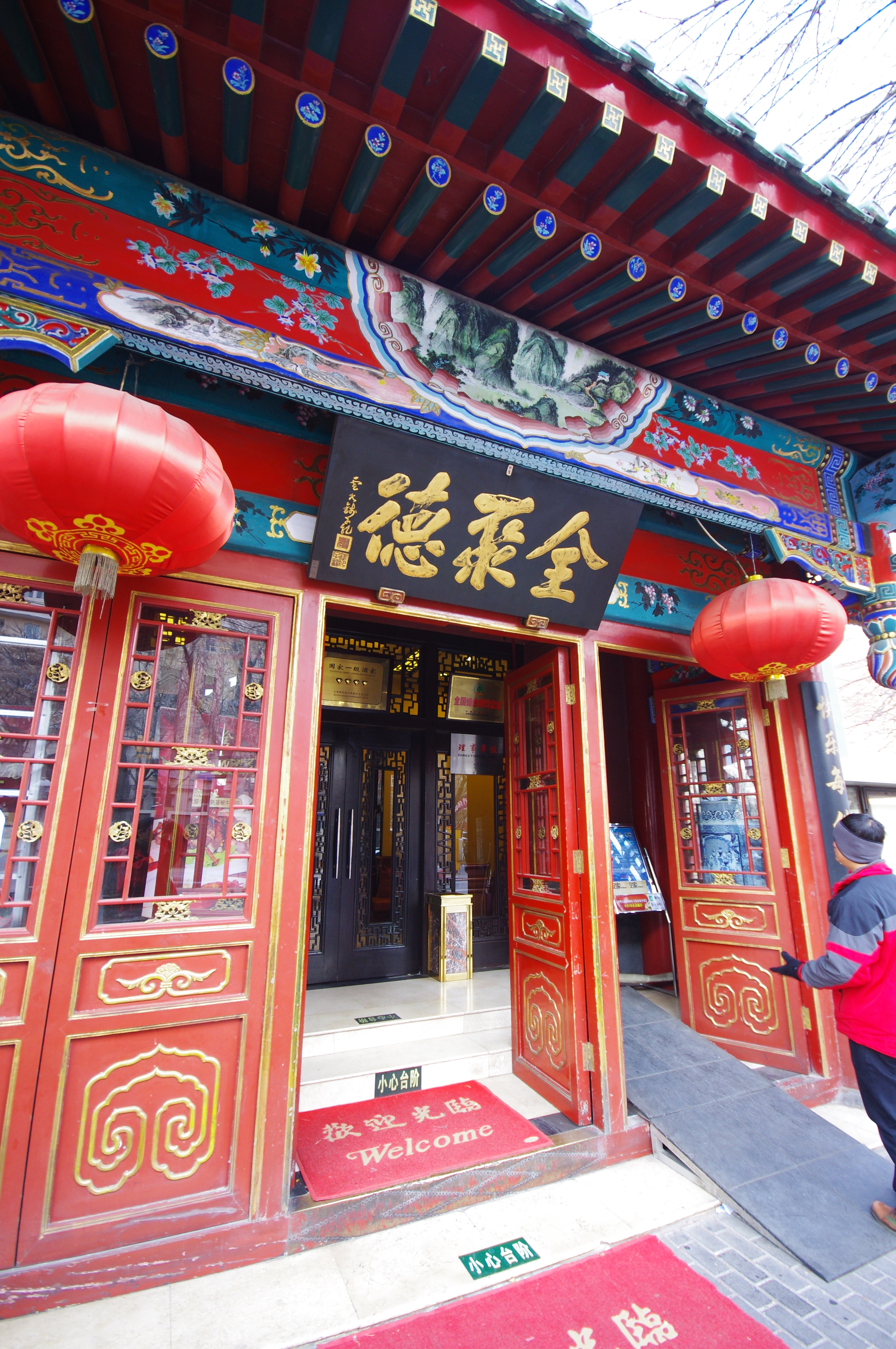 A branch of the Quanjude restaurant in Beijing.